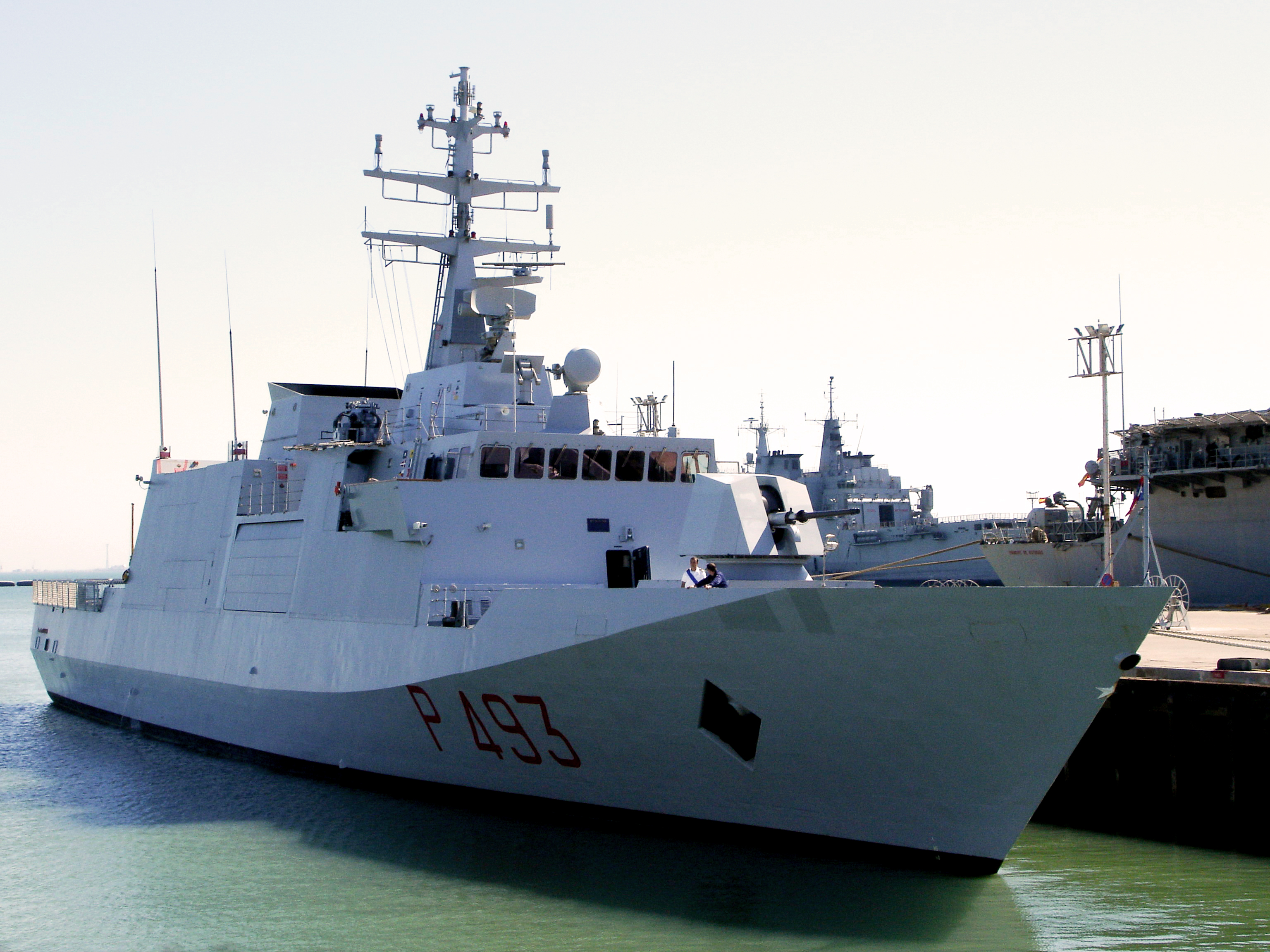 ITS Comandante Foscari (P-493) in N.B. Rota